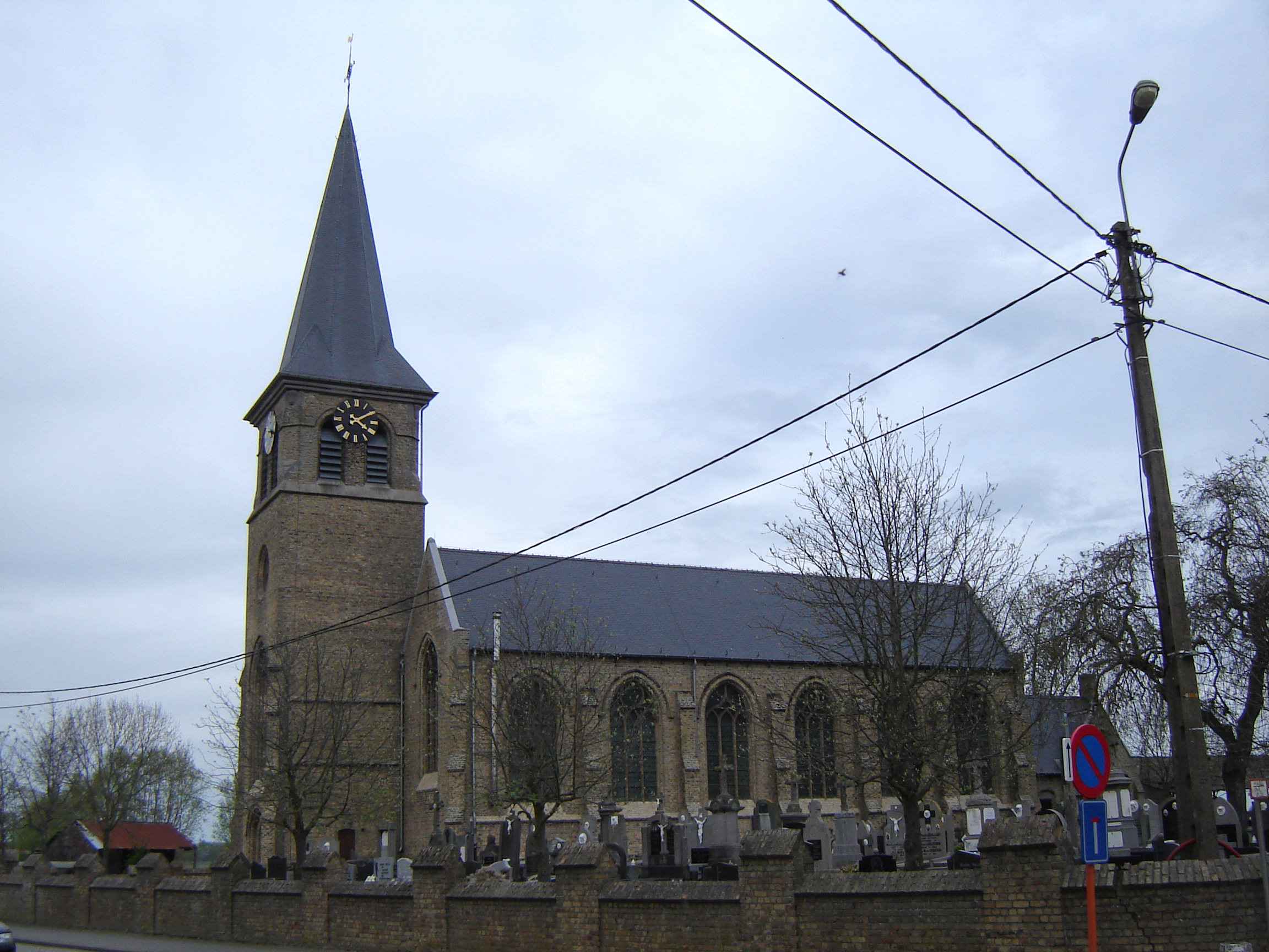 Church of Saint Barnabas in Noordschote. Noordschote, Lo-Reninge, West Flanders, Belgium